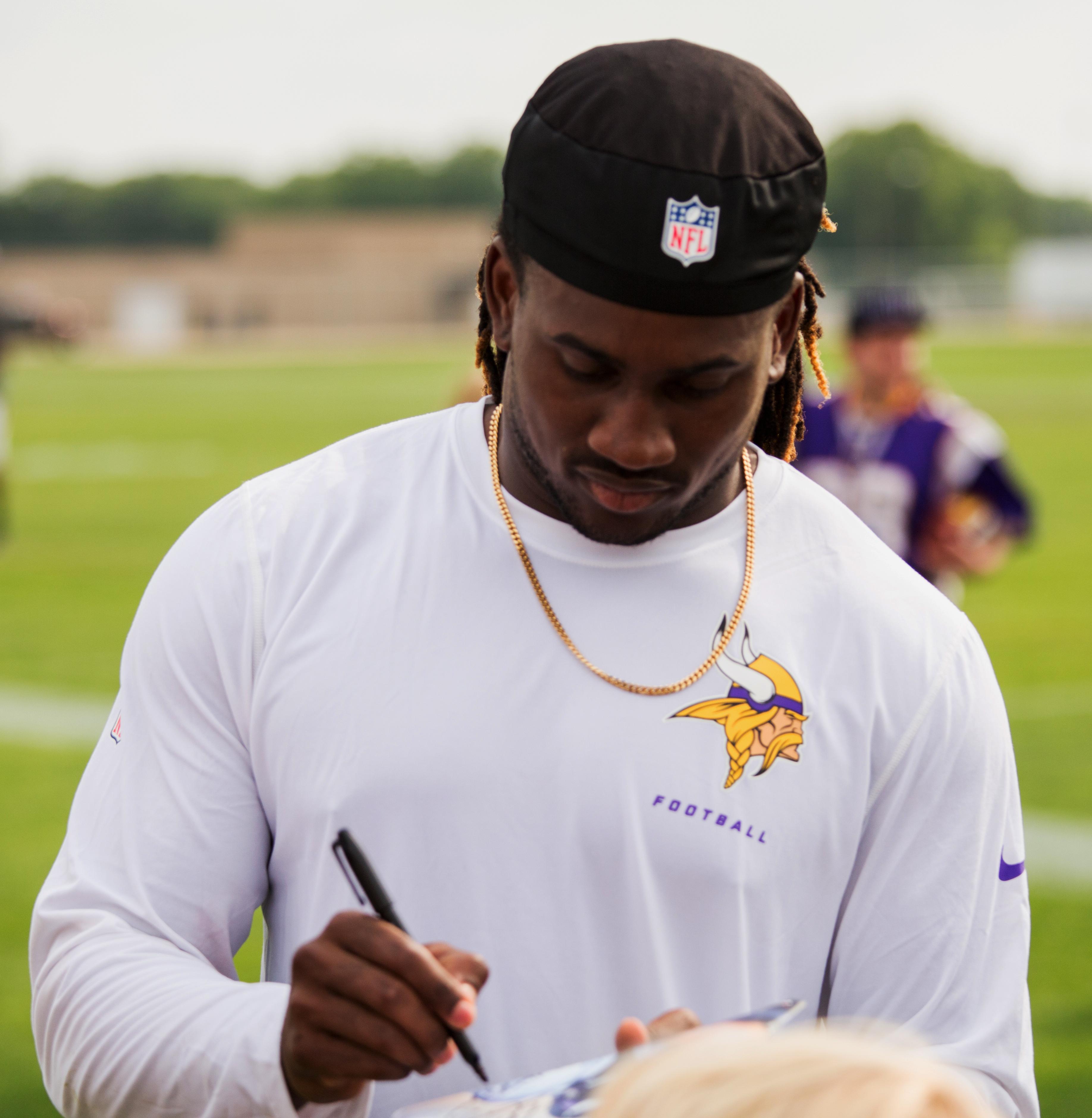 Minnesota Vikings wide receiver Cordarrelle Patterson during 2014 training camp.